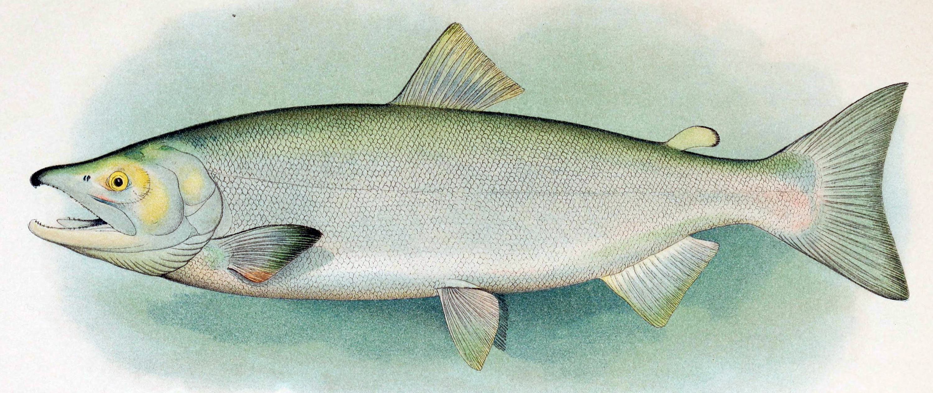 Sockeye_adult_male